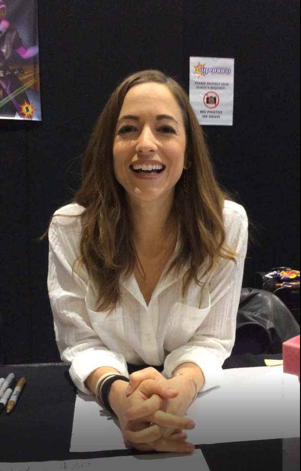 Photo of Carolina at Supanova in 2017.